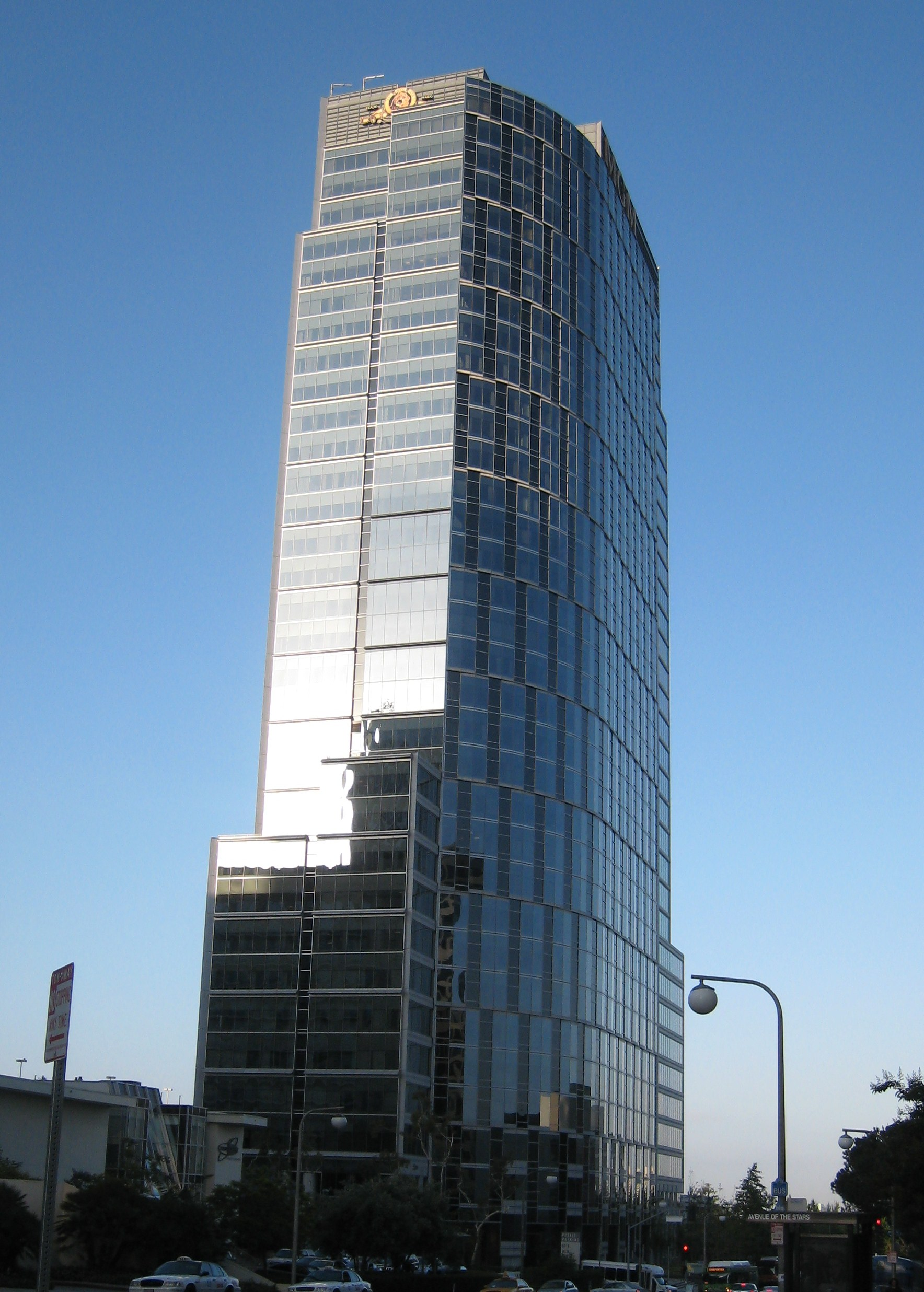 Constellation Place in Century City, Westside Los Angeles, California. It formerly housed the headquarters of the MGM Corporation. It houses the headquarters of the Houlihan Lokey, International Creative Management, and International Lease Finance Corporation.